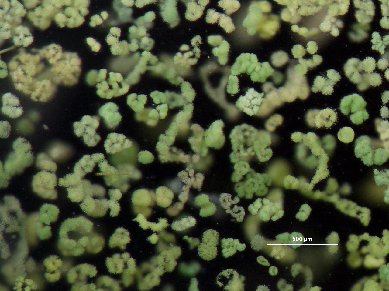 Algae, Microcystis. July 2010.